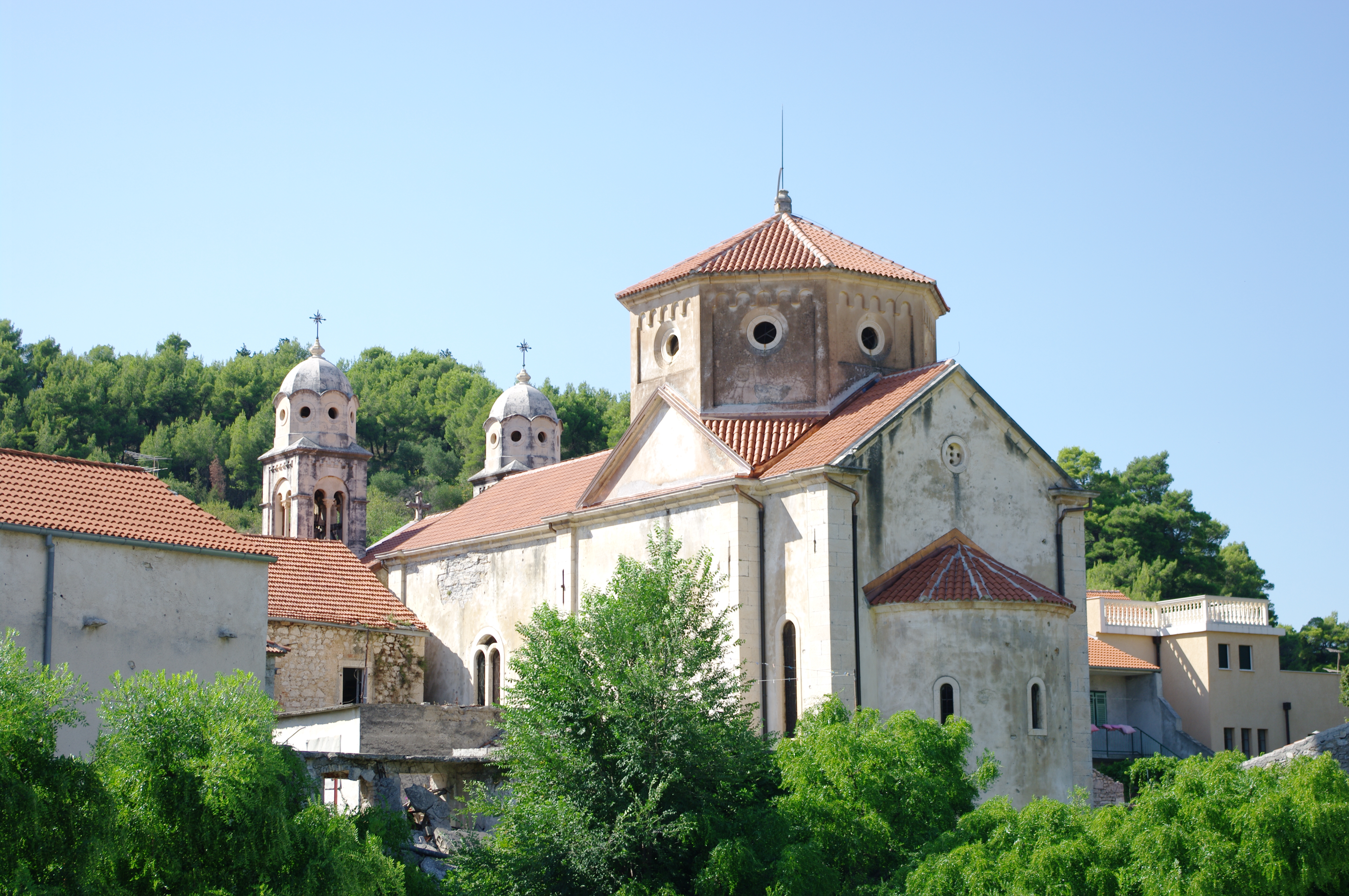 Saint Spyridon's church in Scradin, Croatia